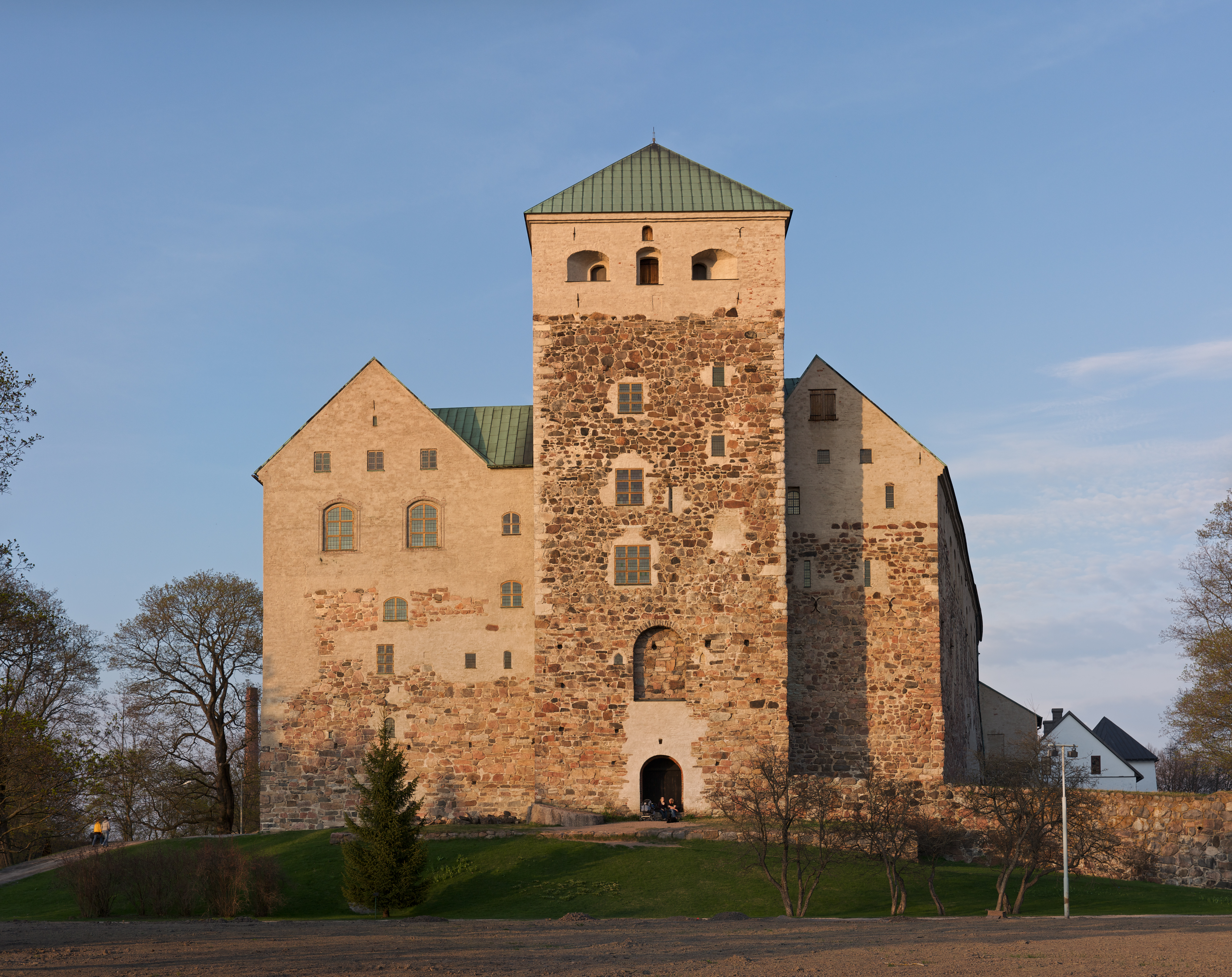 Turku Castle, dating from the 13th century, is the largest surviving medieval building in Finland, and one of the largest surviving medieval castles in Scandinavia.